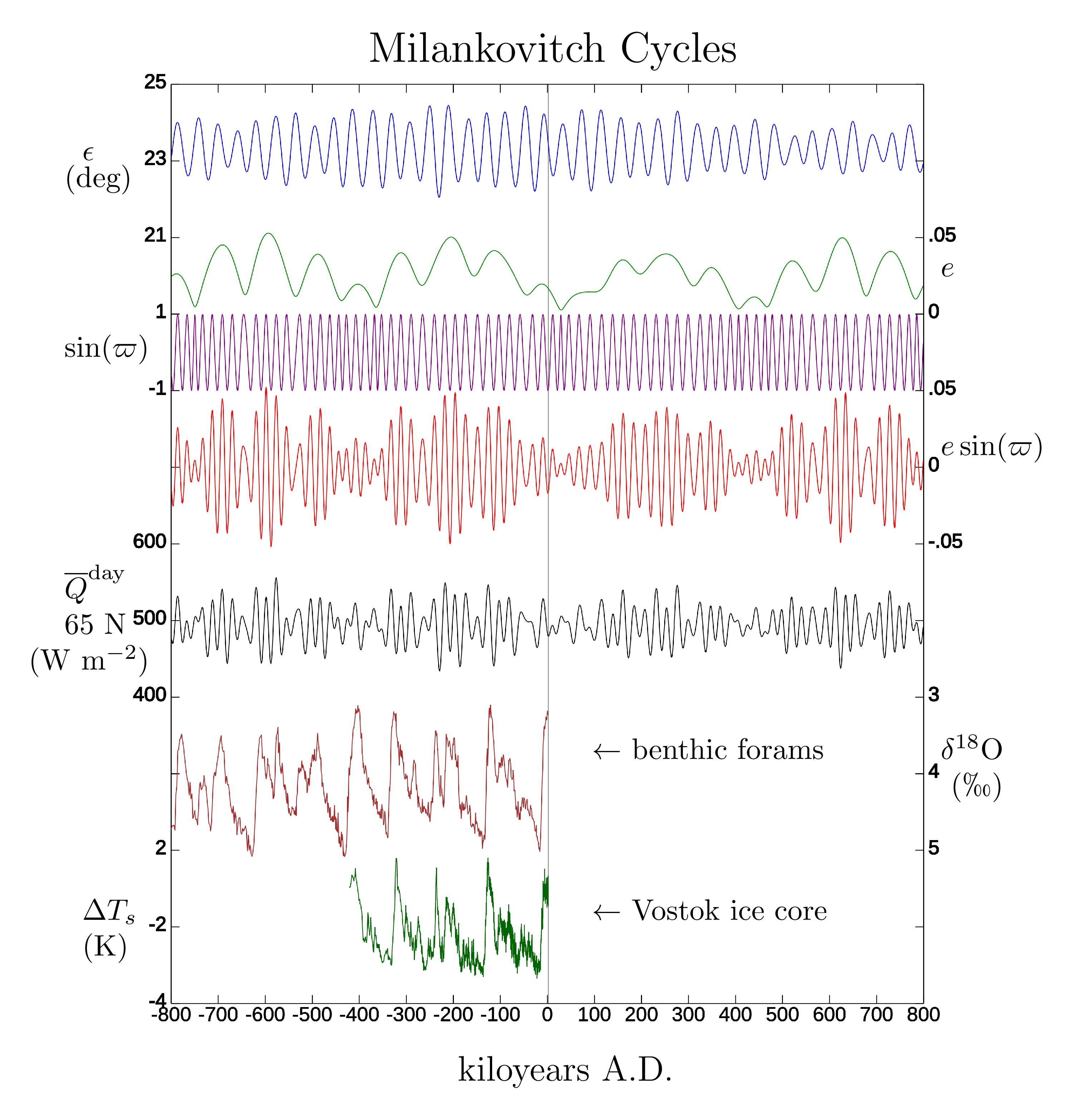 Orbital Parameters for the Earth: Insolation calculation is generated from the orbital parameters Vostok ice core data: Petit, J.R., et al., 2001, Vostok Ice Core Data for 420,000 Years, IGBP PAGES/World Data Center for Paleoclimatology Data Contribution Series #2001-076. NOAA/NGDC Paleoclimatology Program, Boulder CO, USA. ftp://ftp.ncdc.noaa.gov/pub/data/paleo/icecore/antarctica/vostok/deutnat.txt Temperature reconstruction is offered within the dataset. Benthic foram data: Lisiecki, L. E., and M. E. Raymo (2005), A Pliocene- Pleistocene stack of 57 globally distributed benthic d18O records, Paleoceanography,20, PA1003, A definitive temperature reconstruction is not offered within the data set. But from: is the statement: "A large portion change in d18Oc records is thought to result of the sequestration of isotopically light oxygen (16O) in large continental ice sheets, resulting in ocean water that has a larger proportion of 18O." Thus reduction of oxygen 18 (which is upward on the graph) indicates warmer conditions and higher sealevel.